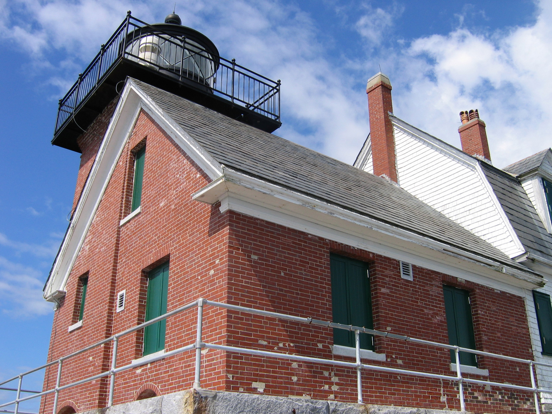 Rockland Breakwater Lighthouse, which sits at the end of a 4,300 ft long breakwater, was completed in 1902 and is owned by the City of Rockland, Maine.